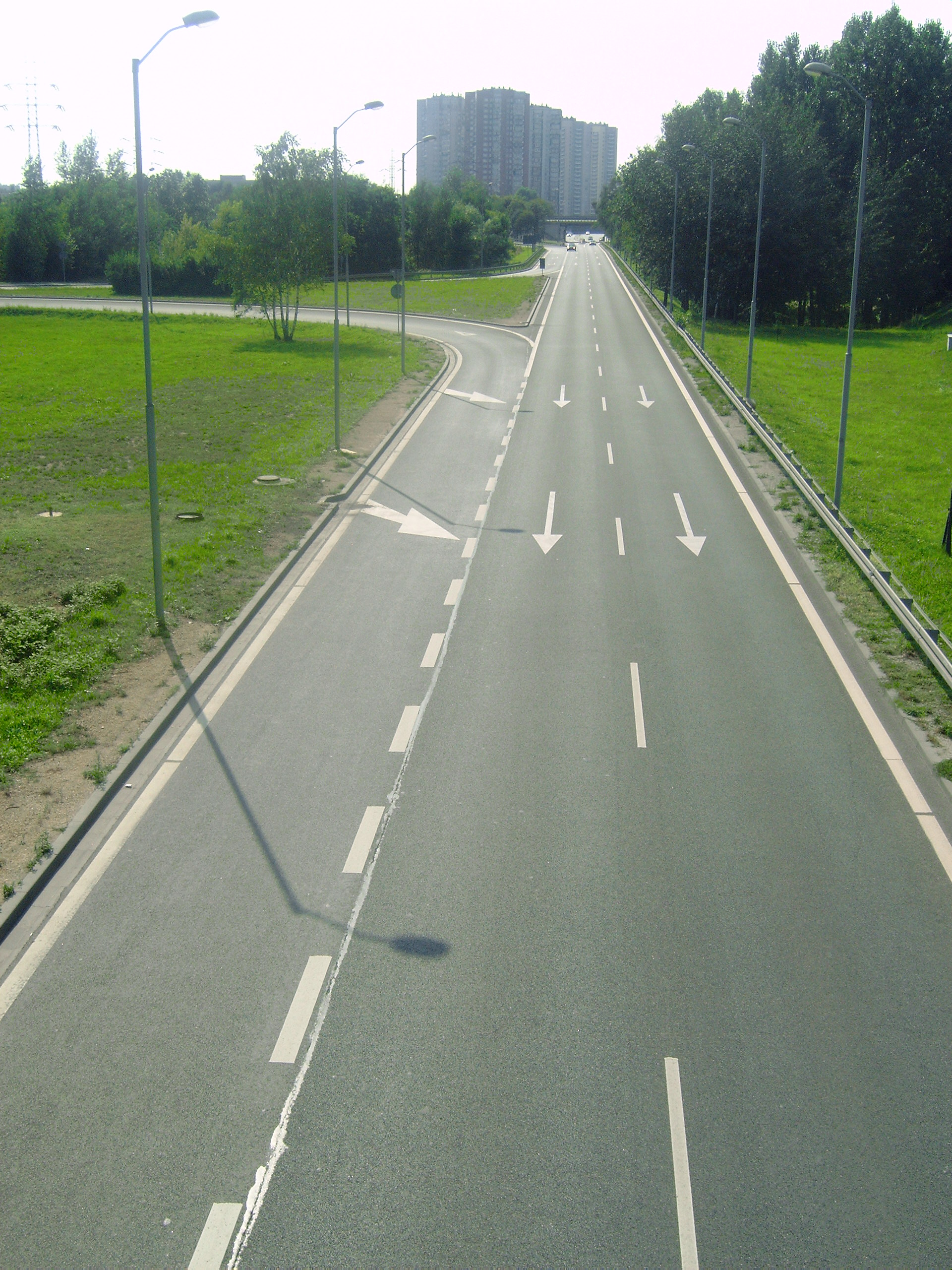 Bagienna Street in Zaodzie (district of Katowice in Poland).